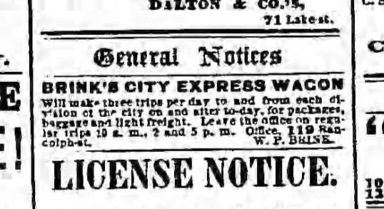 An advertising for Brink's in the Chicago Tribune newspaper